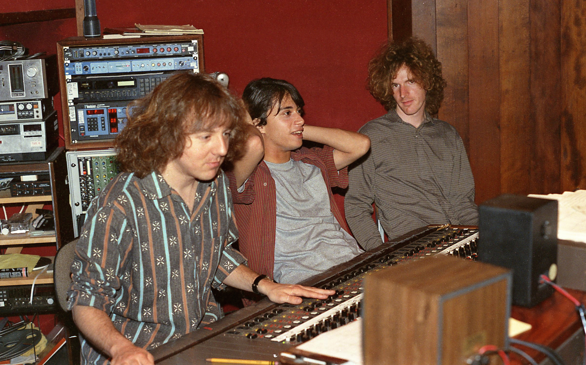 Mitch Easter, Michael Quercio and Scott Miller in 1986, in San Francisco's CD Studio, recording Game Theory's double album Lolita Nation. Photo by Robert Toren.